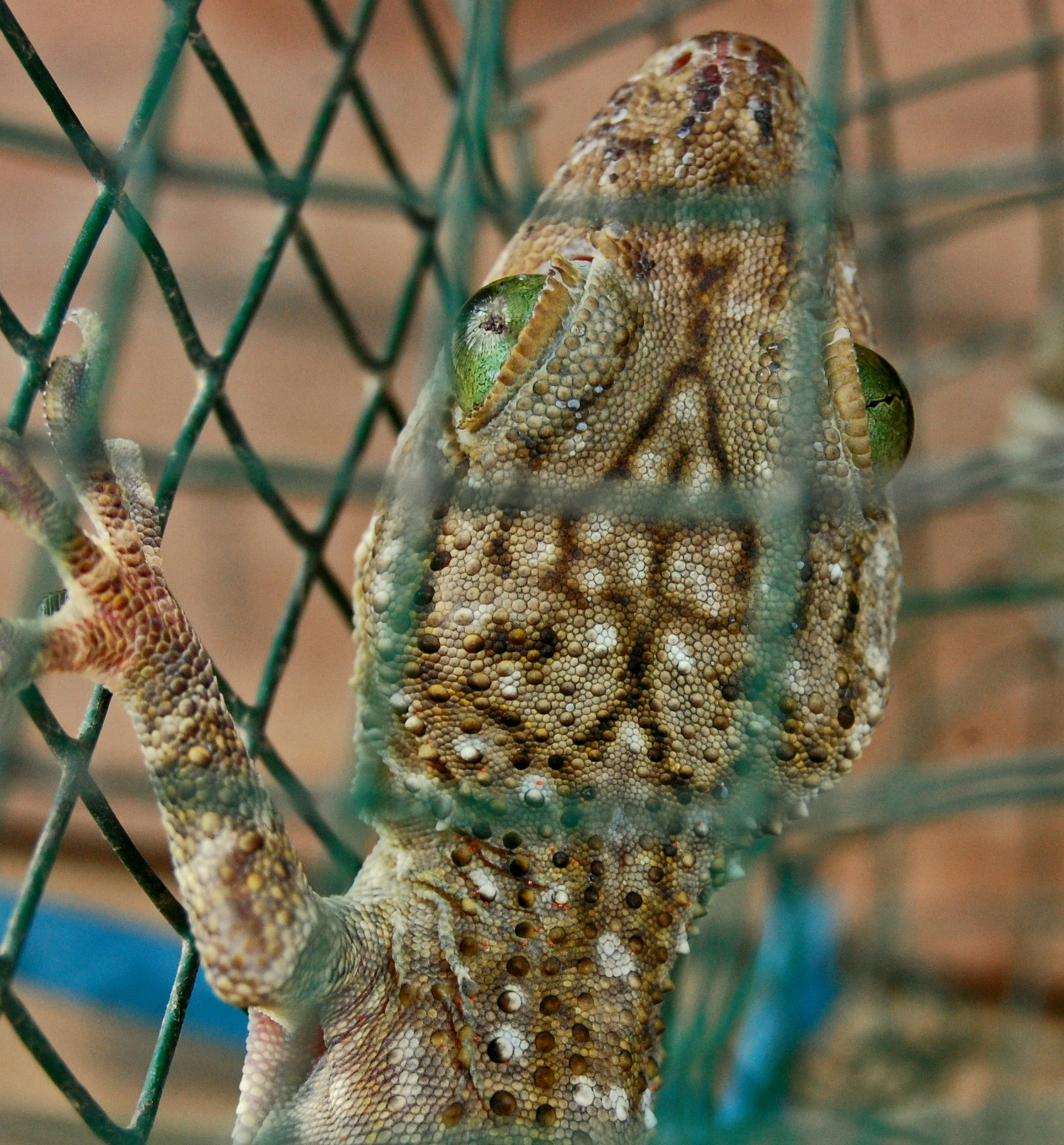 Gekko smithii, Large Forest Gecko; head close-up (upper view). From oil-palm plantation in Upper Seruyan, Central Kalimantan, Indonesia